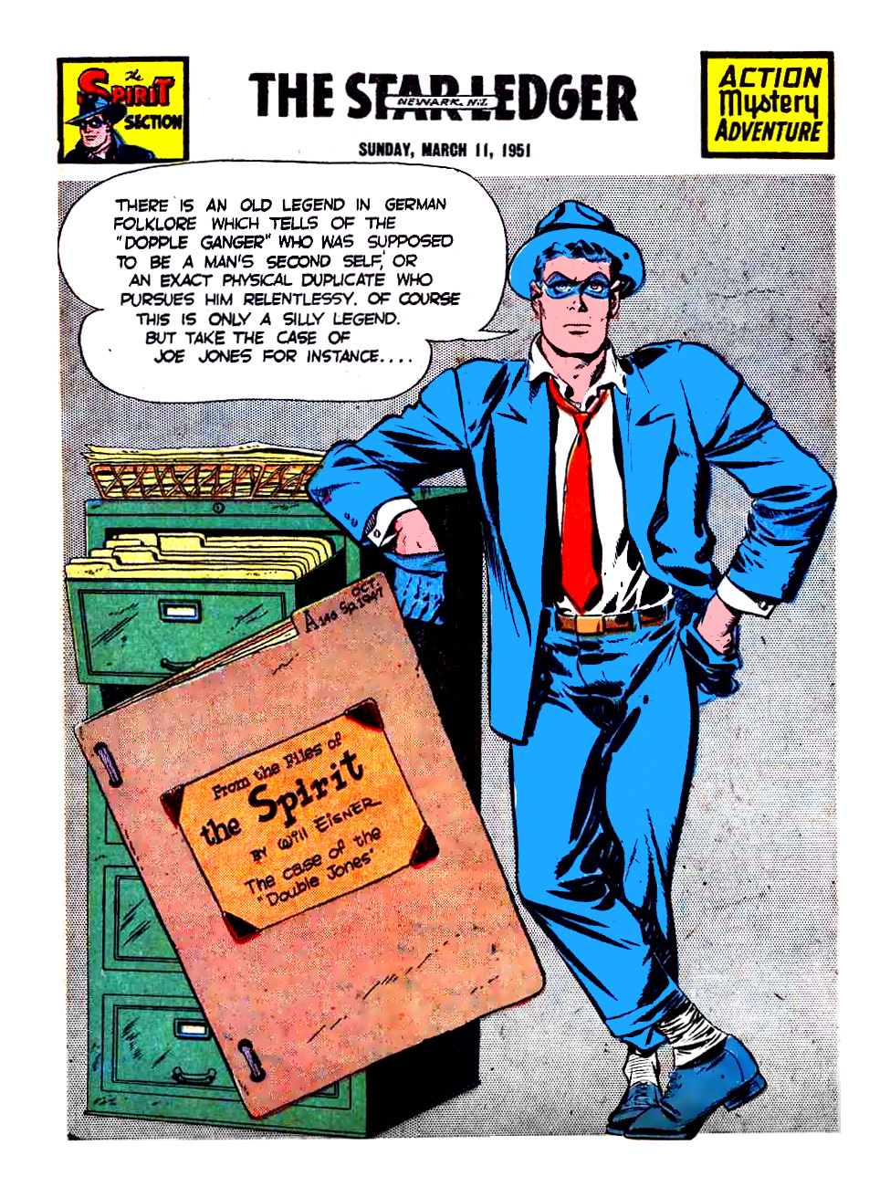 Denny Colt a.k.a. The Spirit investigates the mysterious case of "The Double Jones." Will Eisner's Spirit Section was one of the most innovative newspaper strips of its time, exerting a profound influence over cartoonists of succeeding generations. From The Star Ledger, Sunday, 11 March 1951.